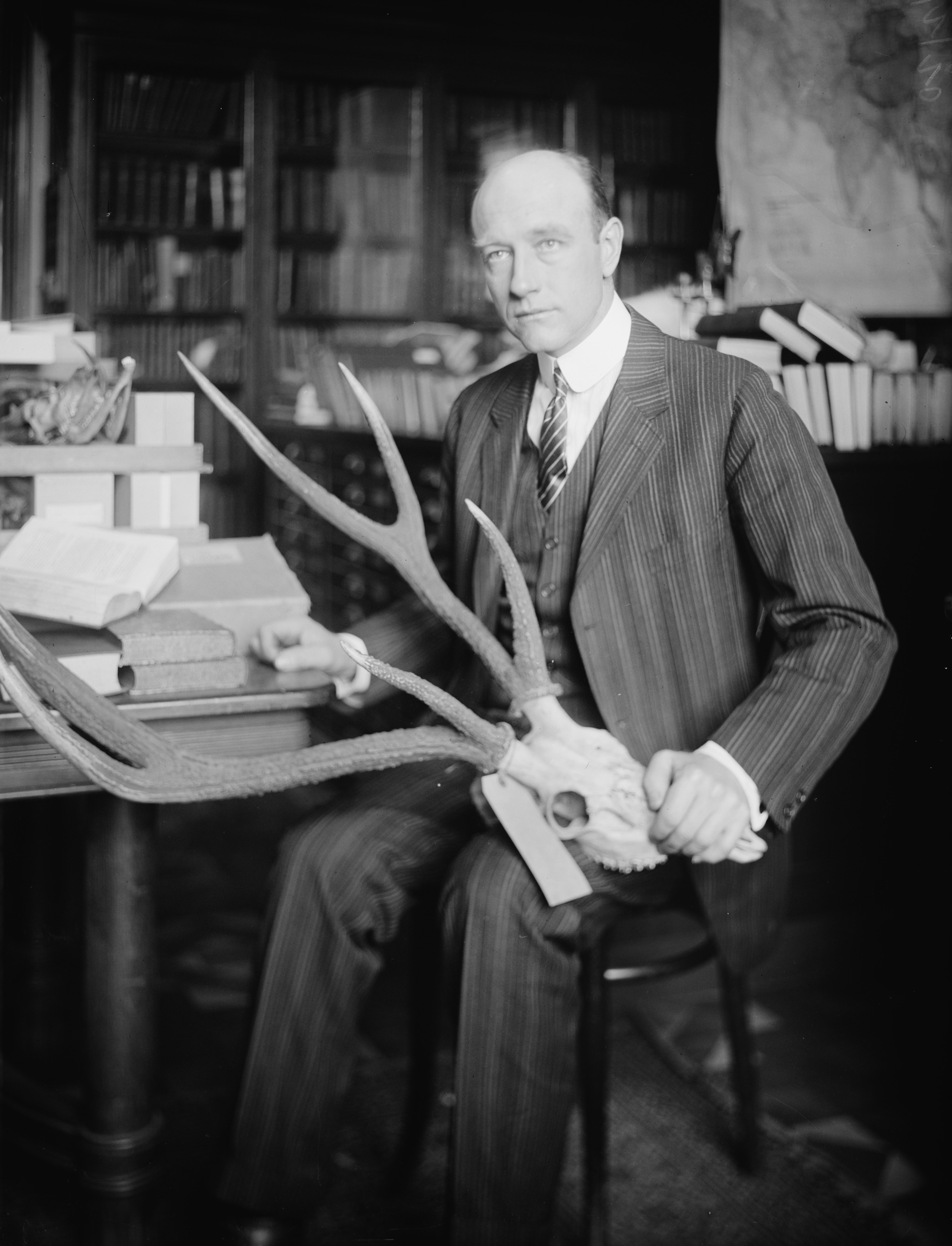 Explorer Roy Chapman Andrews holding the skull of a deer.